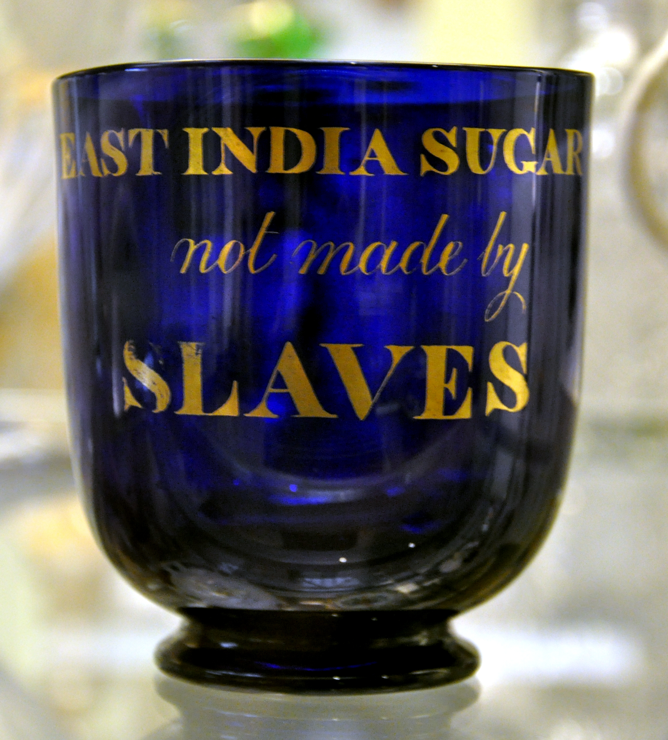 British Museum reference2002,0904.1Detailed descriptionBlue glass sugar bowl inscribed in gilt "EAST INDIA SUGAR / not made by / SLAVES", English, probably Bristol, 1820–1830SizeHeight: 11 cm, diameter: 10 cmLocationRoom 47